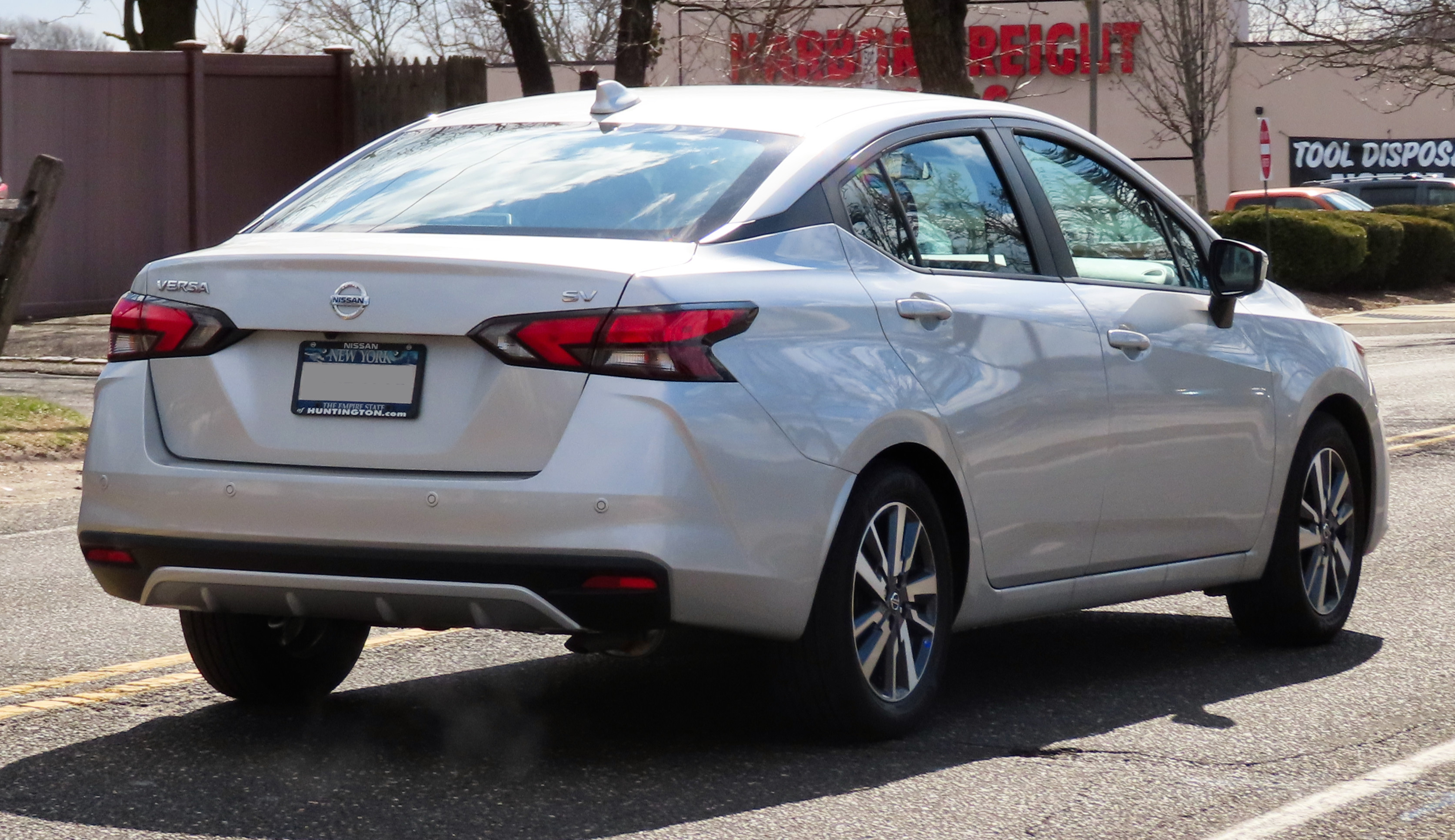 A 2020 Nissan Versa SV photographed in Huntington, New York, USA